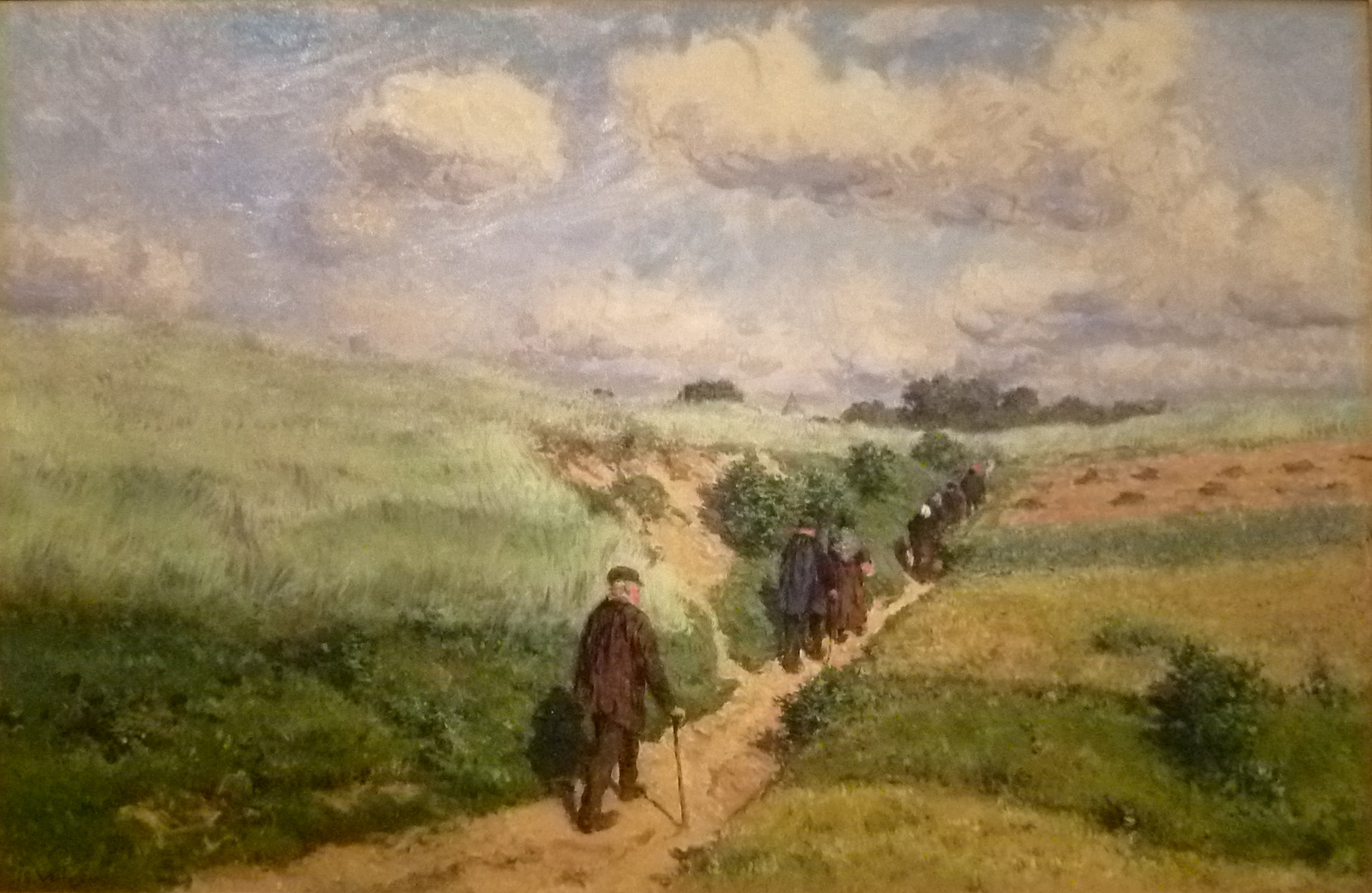 "Sunday morning", oil on canvas (115.5 x 175 cm) by the Belgian painter Isidore Verheyden (1846-1905); gemeentelijk patrimonium Knokke-Heist (Belgium)